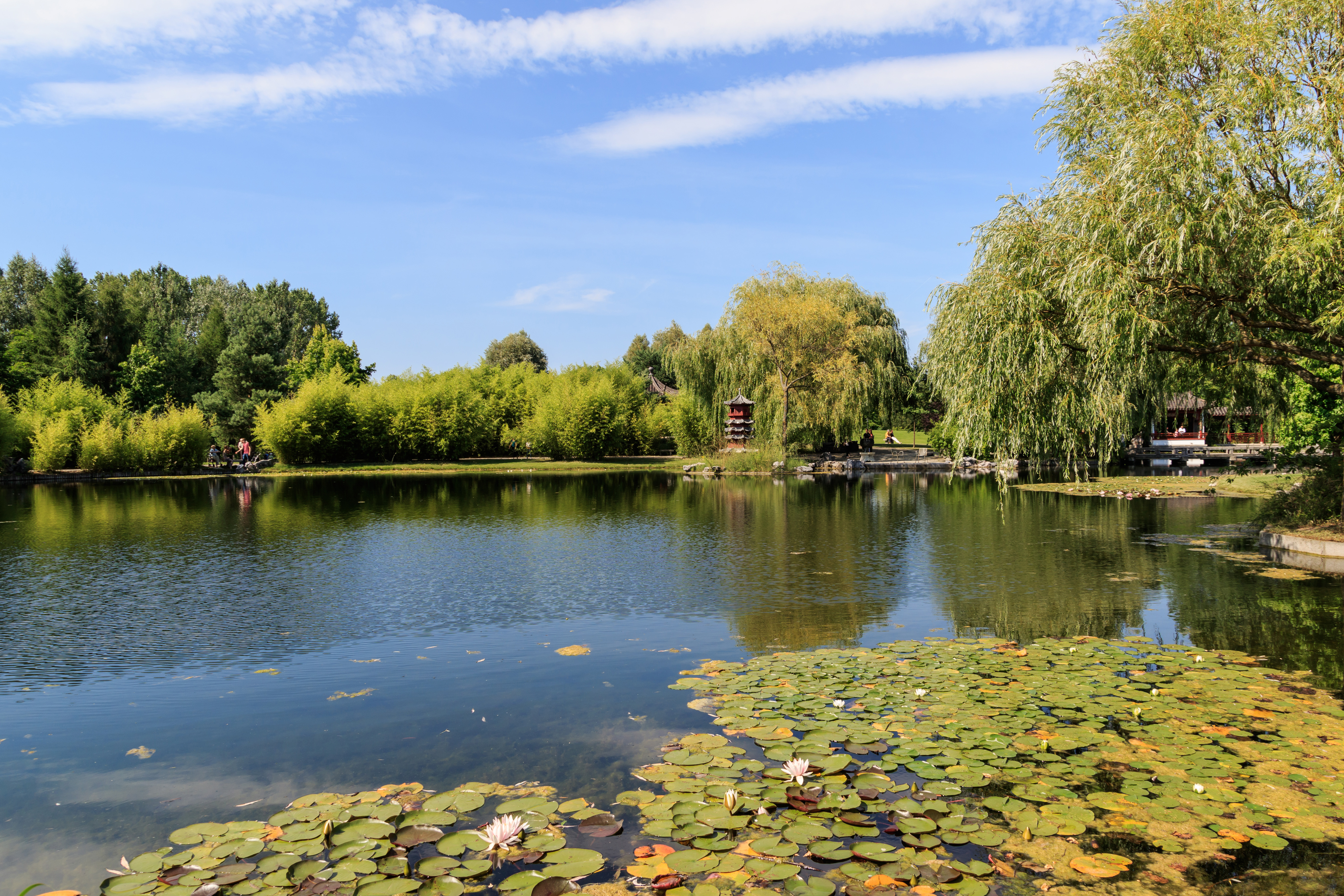 Berlin-Marzahn Gardens of the World: Chinese Garden